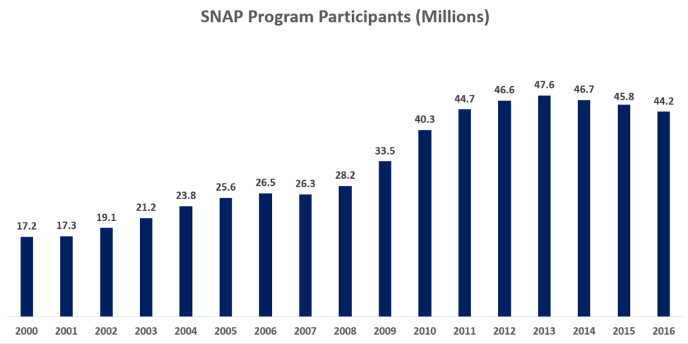 Average number of persons participating in Supplemental Nutritional Assistance Program (SNAP), formerly called Food Stamps. Understanding the chart This chart indicates the average number of persons using the U.S. Supplemental Nutrition Assistance Program (SNAP), formerly referred to as Food Stamps. Data is available from the USDA website.[1] The number of participants is in thousands (i.e., 46,609,000 people in 2012). The compound annual growth rate was 12.1% from 2007 to 2012, calculated by author of the chart. The U.S. population grew about 1% annually on average during the period.